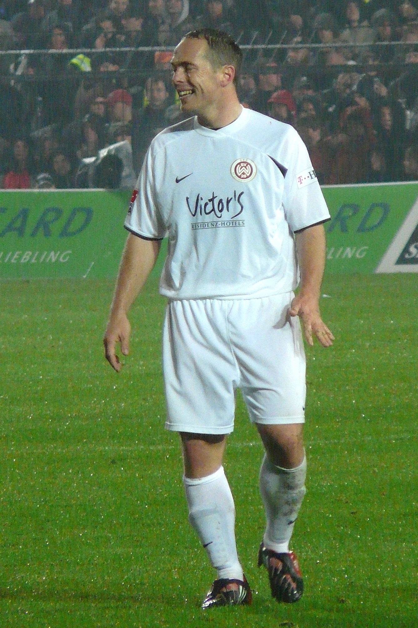 Sascha Amstätter as Player from SV Wehen Wiesbaden